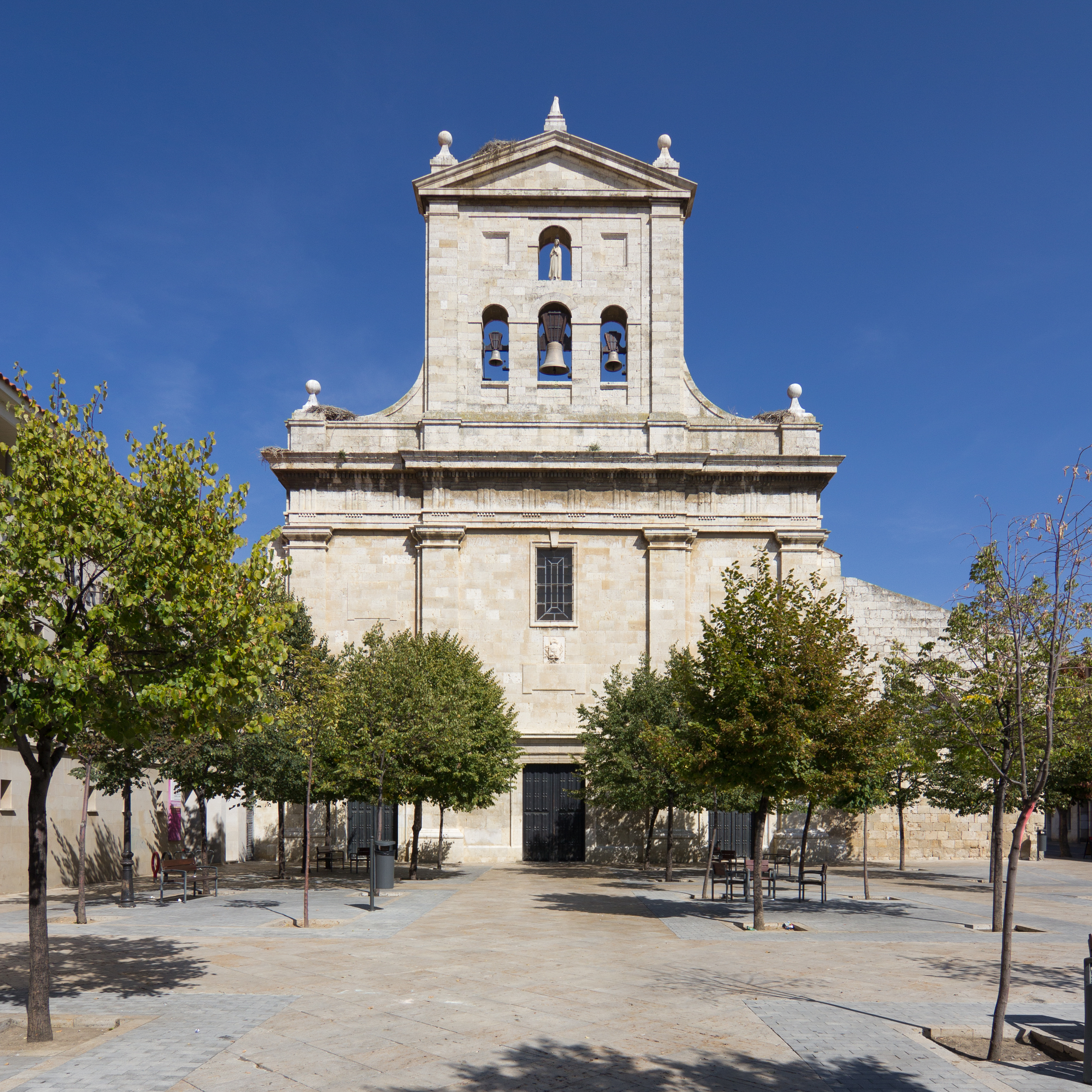 Convent of St. Paul, Palencia, Spain.